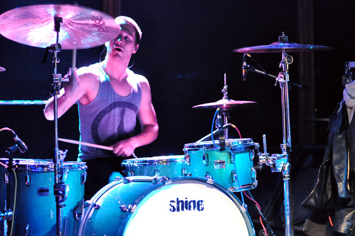 A picture of Gabe Barham for the infobox of the drummer